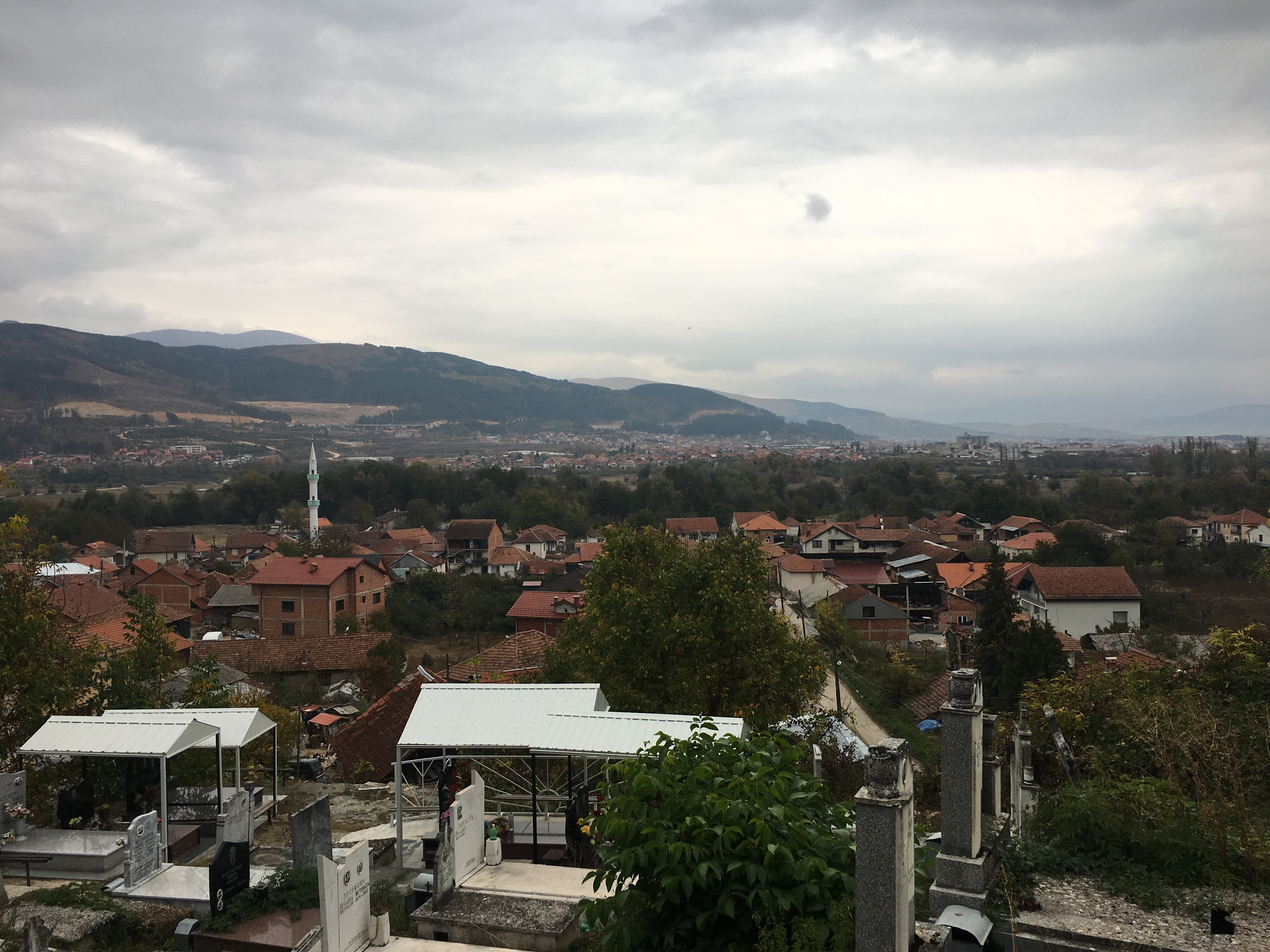 Wikiexpedition to Kopačka